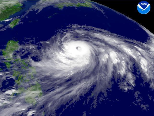 Super Typhoon Dianmu northeast of the Philippines on June 17, 2004. The image from Taken from NOAA's GOES-4 Weather Satellie.